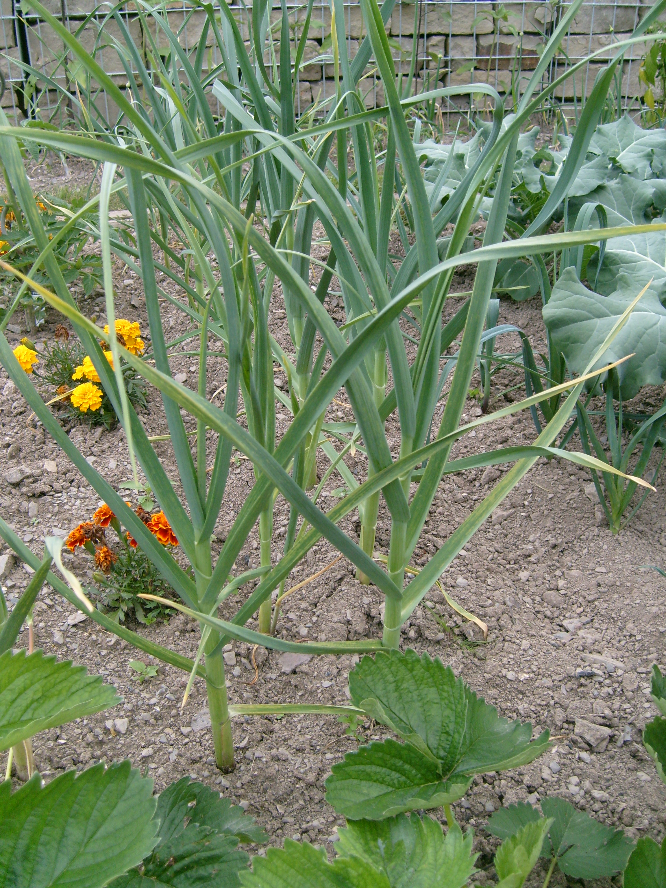 Garlic plants